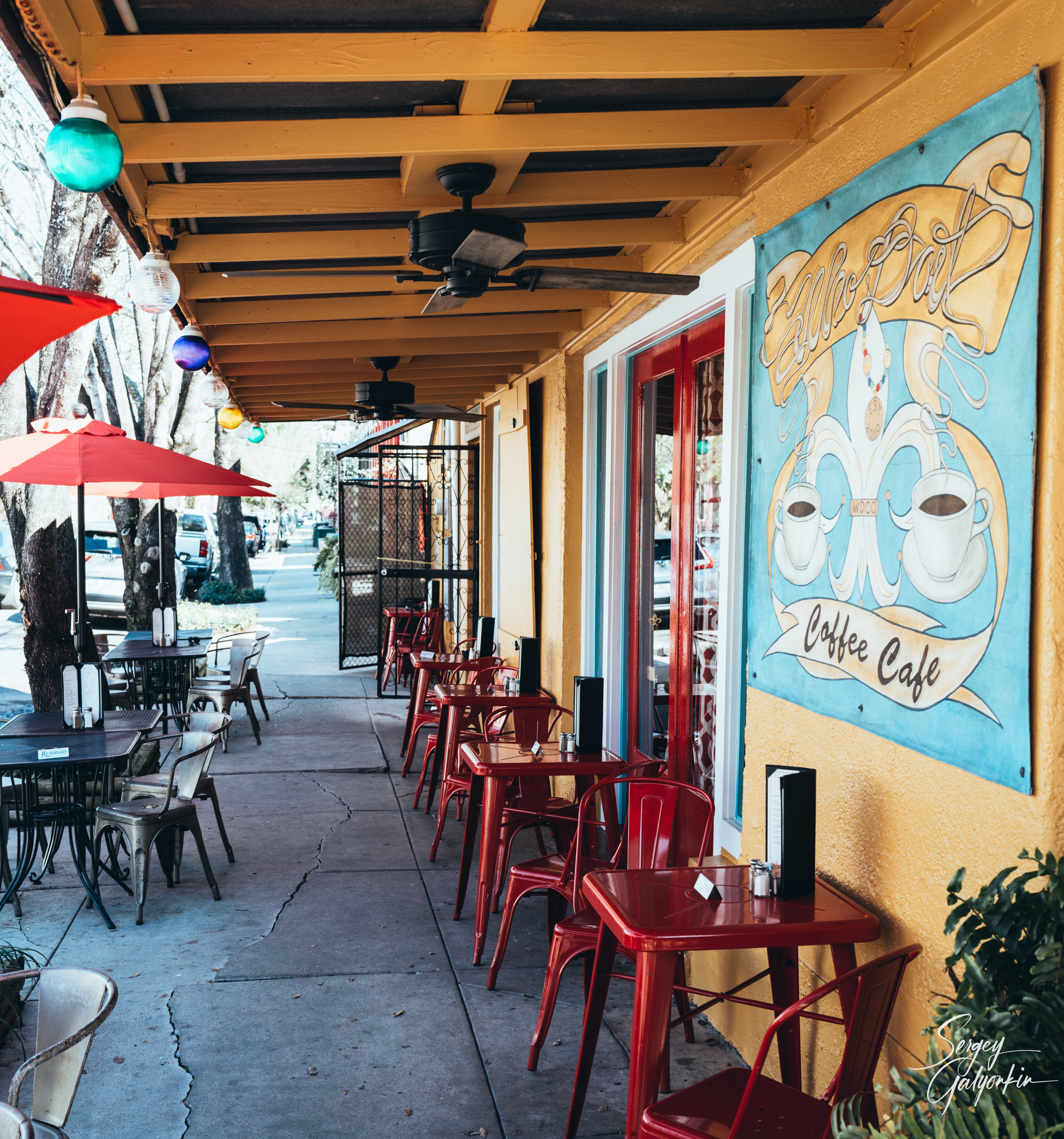 Cafe, Faubourg Maringy, New Orleans. Sidewalk seating.